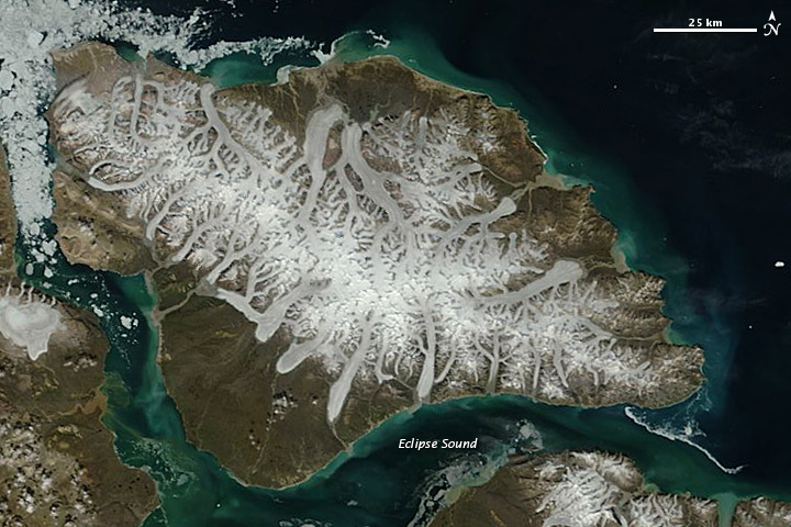 Part of the Canadian Arctic Archipelago, Bylot Island is a 11,000-square-kilometer (4,200-square-mile) island within Canada’s Sirmilik National Park. In wintertime, snow and ice blanket the island in white, but in summertime, Bylot’s glaciers contrast with its earth-toned land cover. The Moderate Resolution Imaging Spectroradiometer (MODIS) on NASA’s Terra satellite observed Bylot Island on March 9, 2012 (top), and July 22, 2012 (bottom)